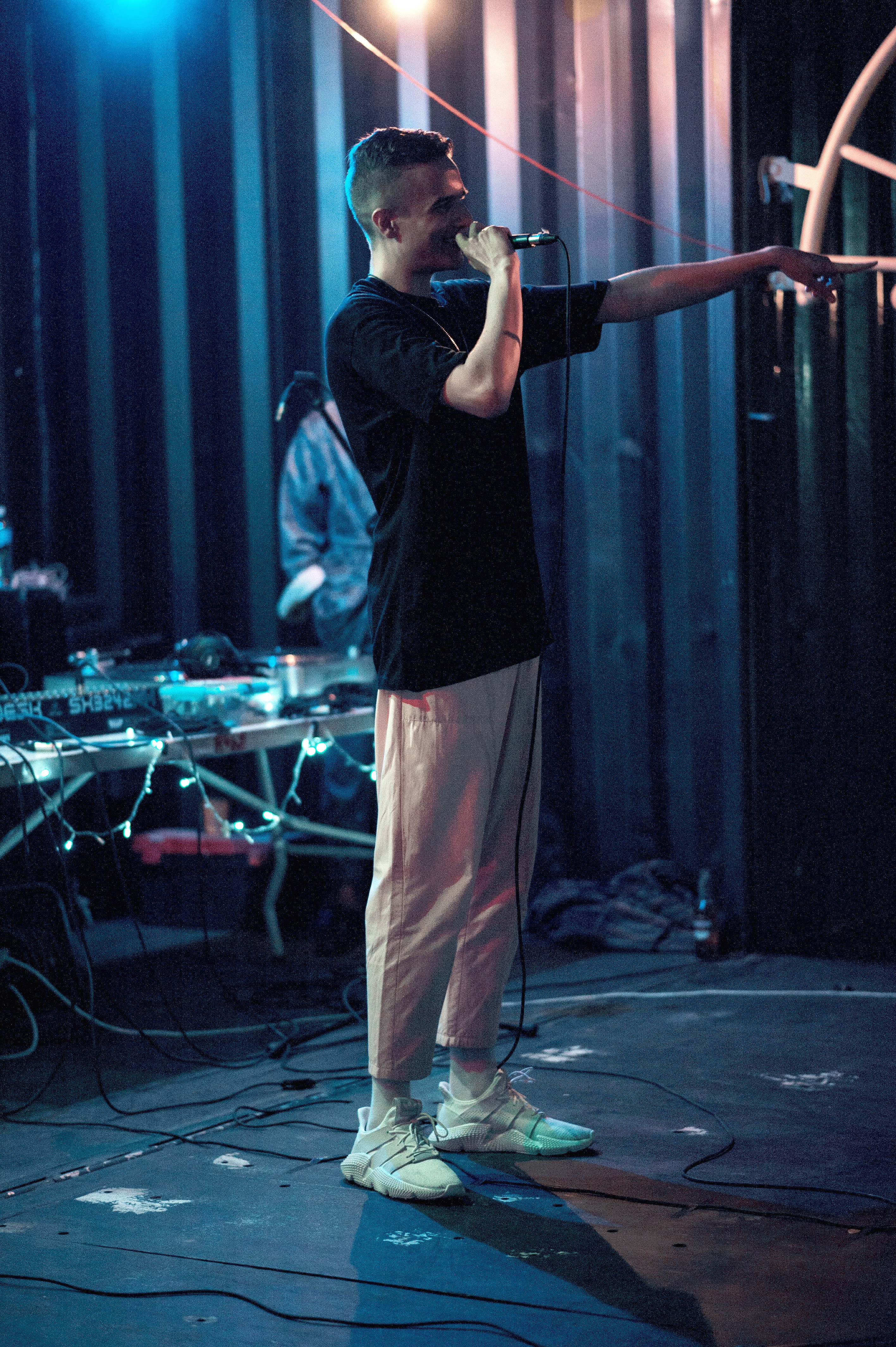 South African rapper Sam Turpin performing live at the Bam-Jive International Music Festival in Soweto, Johannesburg, March 2019